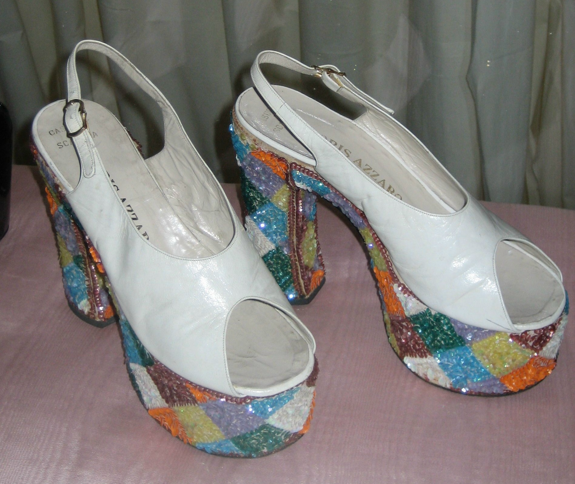 Shoes by Loris Azzaro